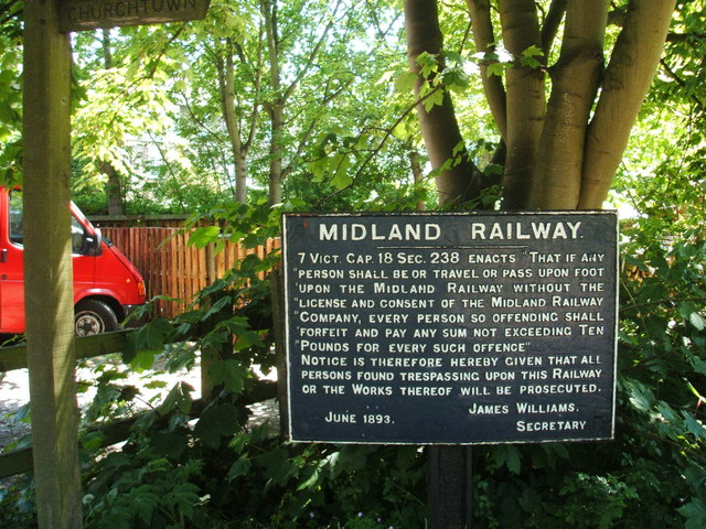 The Victorians had a way with words At Rowsley Station, Peak Rail